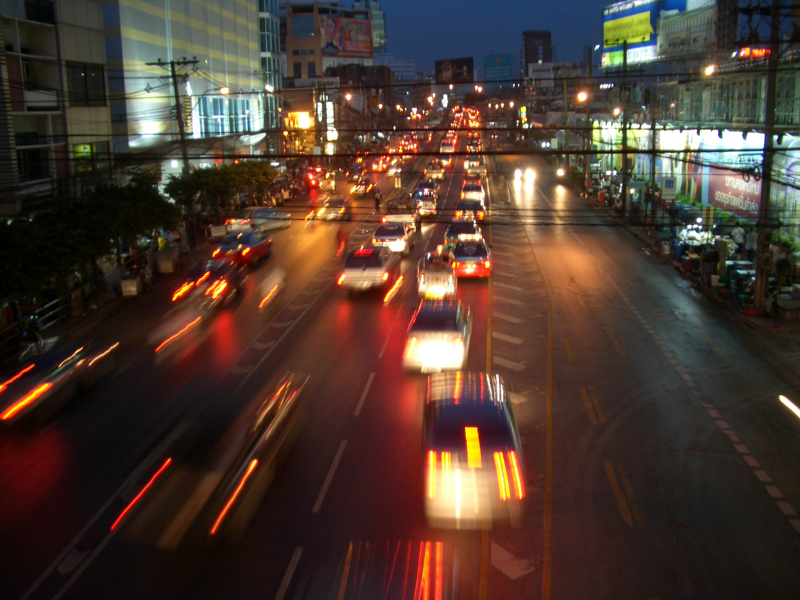 "Bangkok by Night" - view Pratunam with Amarin Plaza Hotel (left) and Pratunam Centre Shopping Complex (left, back) - taken from Petchaburi Road near Pantip Plaza looking west. Bangkok, Thailand